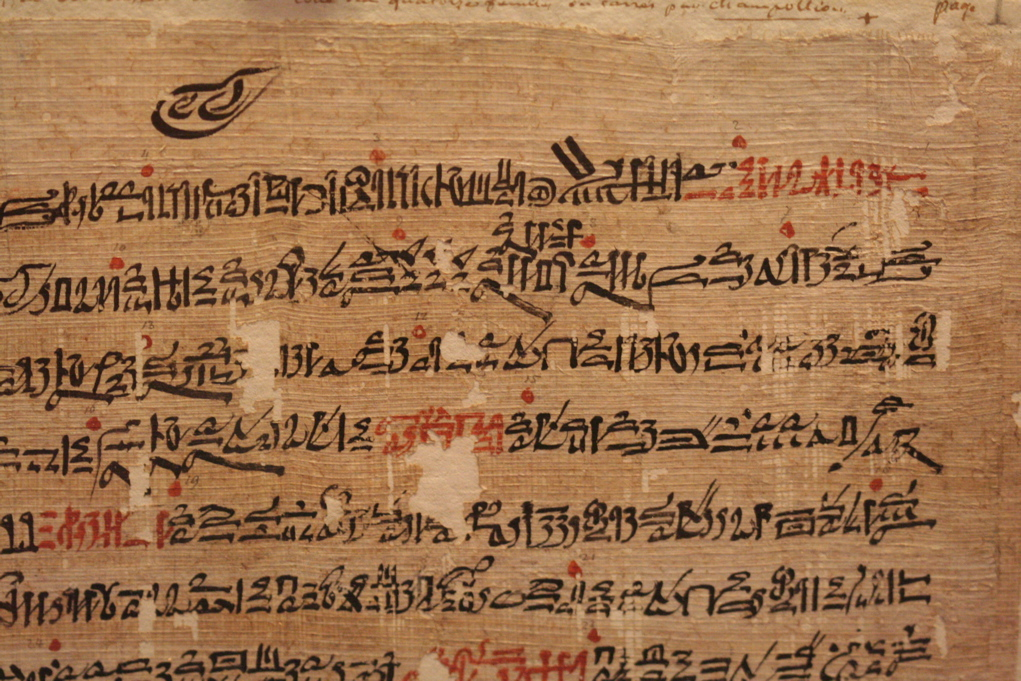 I had a wonderful day at the British Museum with CoryQ (of MonkeyRiverTown) and his wife Mary. These are everything I shot that day, unedited and uncleaned, except for shrinking them some to spead up the upload.